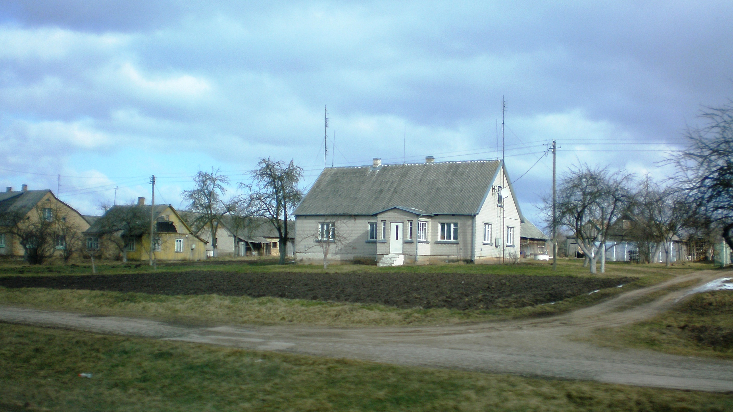 Skėmiai, Radviliškis district, Lithuania